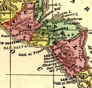 Crop of Image:CentralAmerica1860Map.jpg, scanned from 1860 map in own collection by Infrogmation, copyright expired